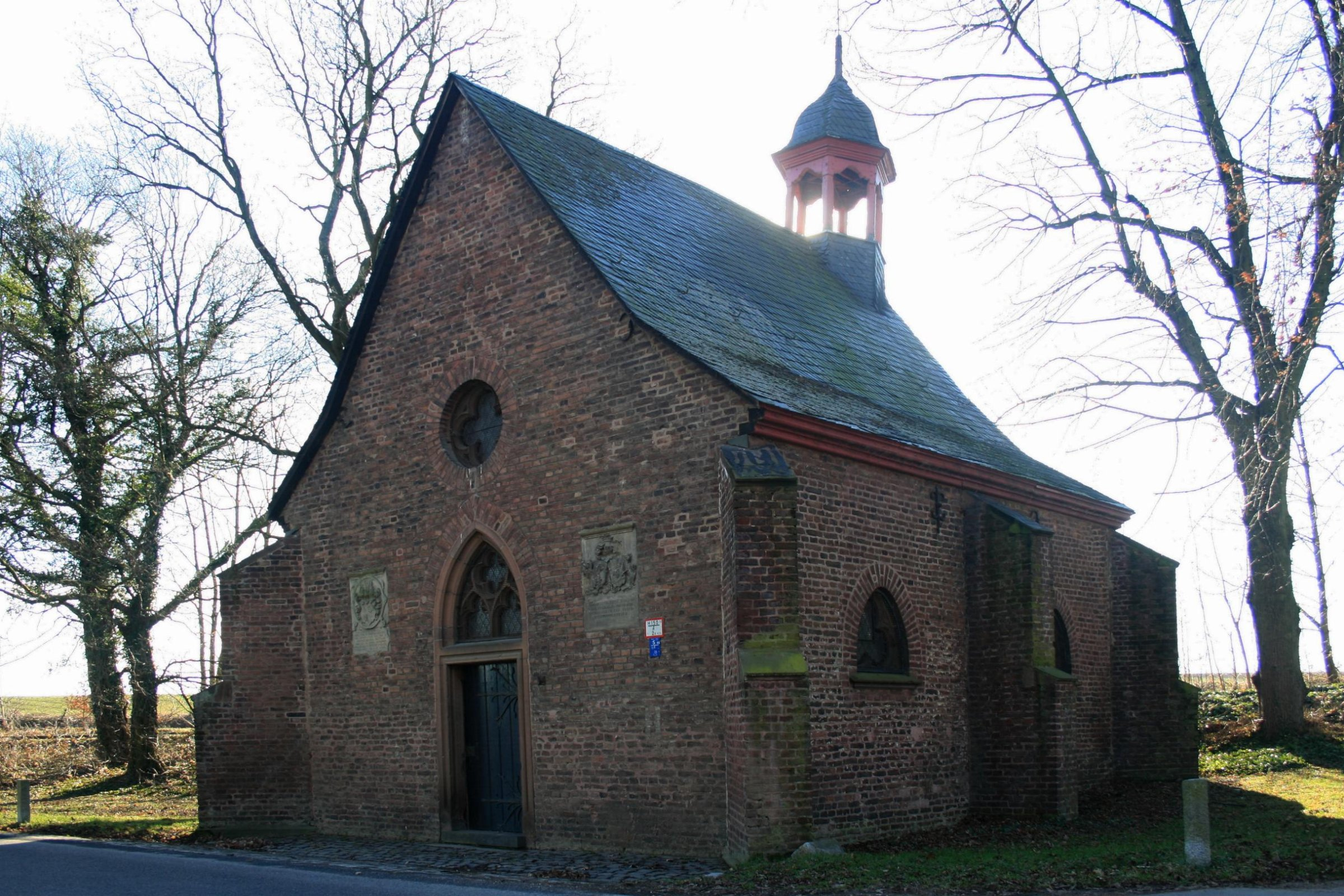 Cultural heritage monument No. 67 in Jülich